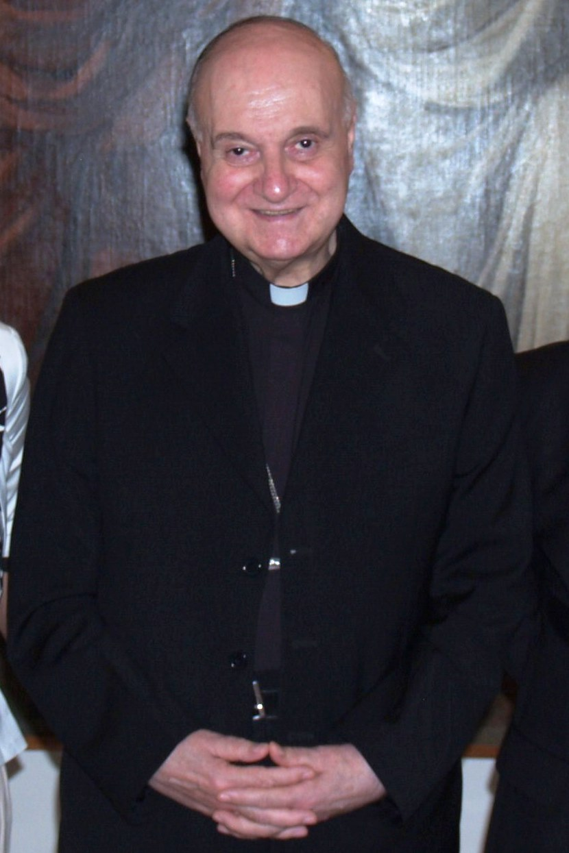 Cardinal Angelo Comastri